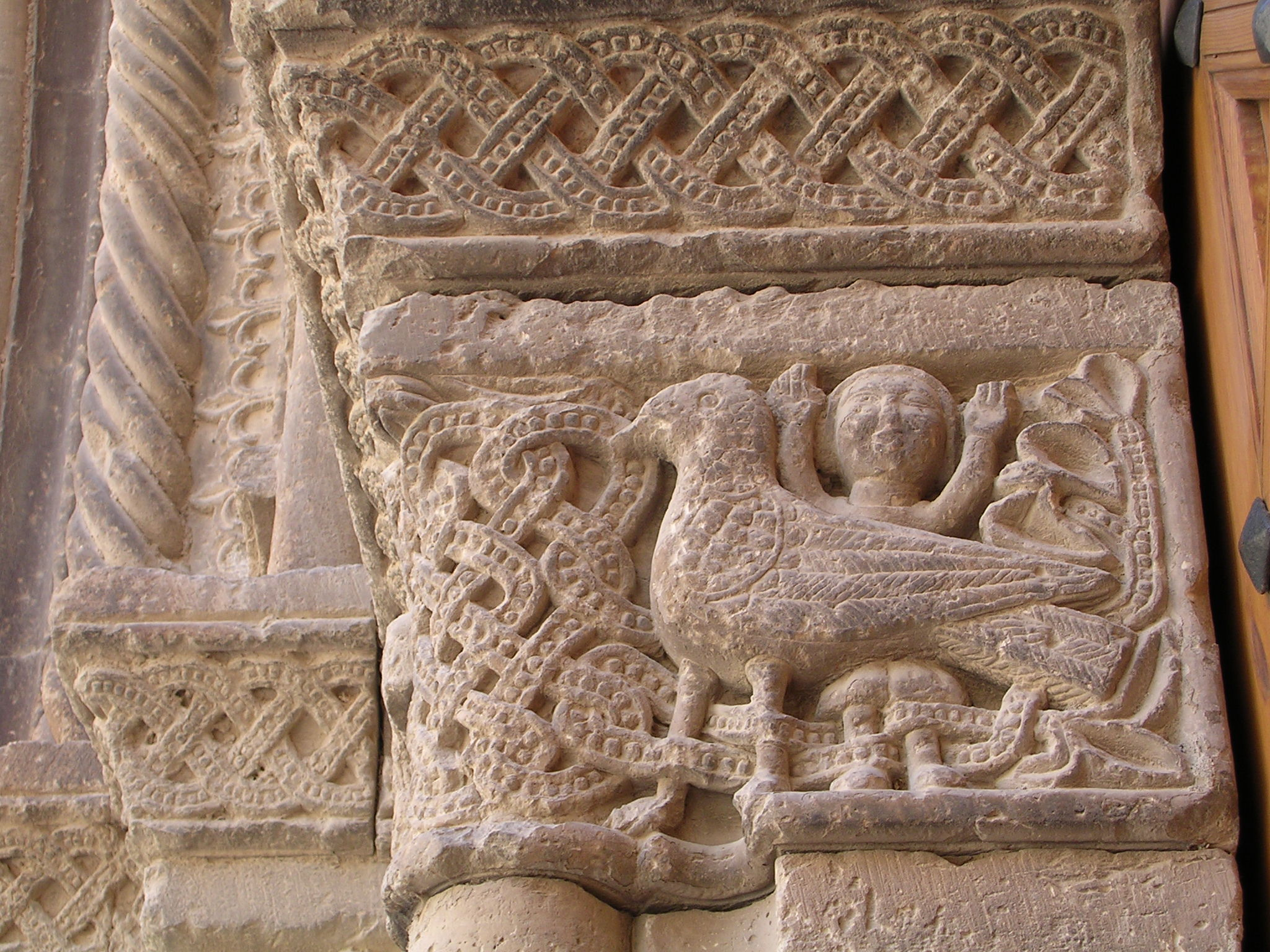 Capitals in the portal of the church of Verdú (Catalonia).